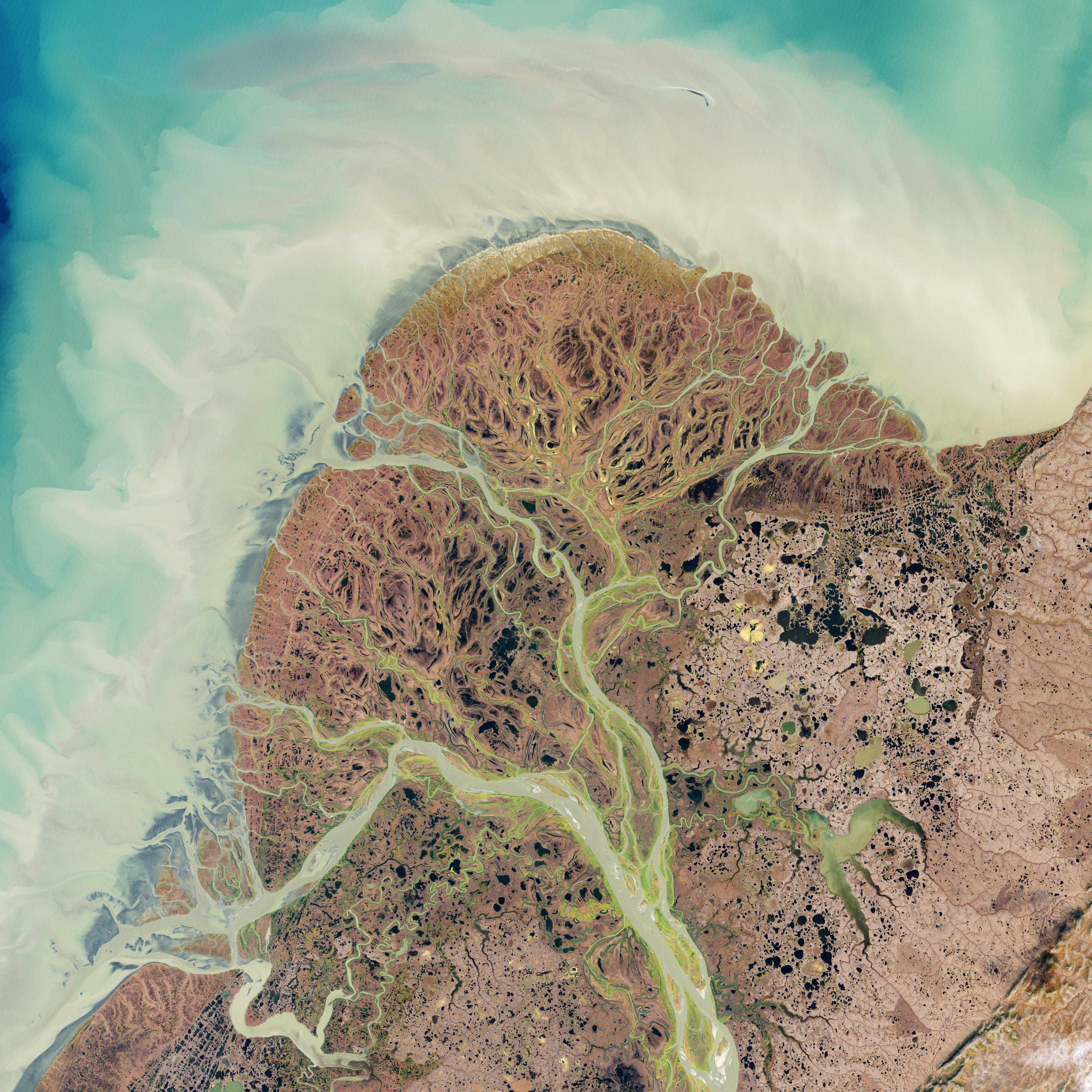 Natural-colour image of the Yukon Delta. Looking a little like branching and overlapping blood vessels, the rivers and streams flow through circuitous channels toward the sea, passing and feeding a multitude of coastal ponds and lakes. The pale colour of the sea water around the delta testifies to the heavy sediment load carried by the rivers. Image captured by the Enhanced Thematic Mapper Plus on the Landsat 7 satellite. Landsat data provided by the United States Geological Survey.